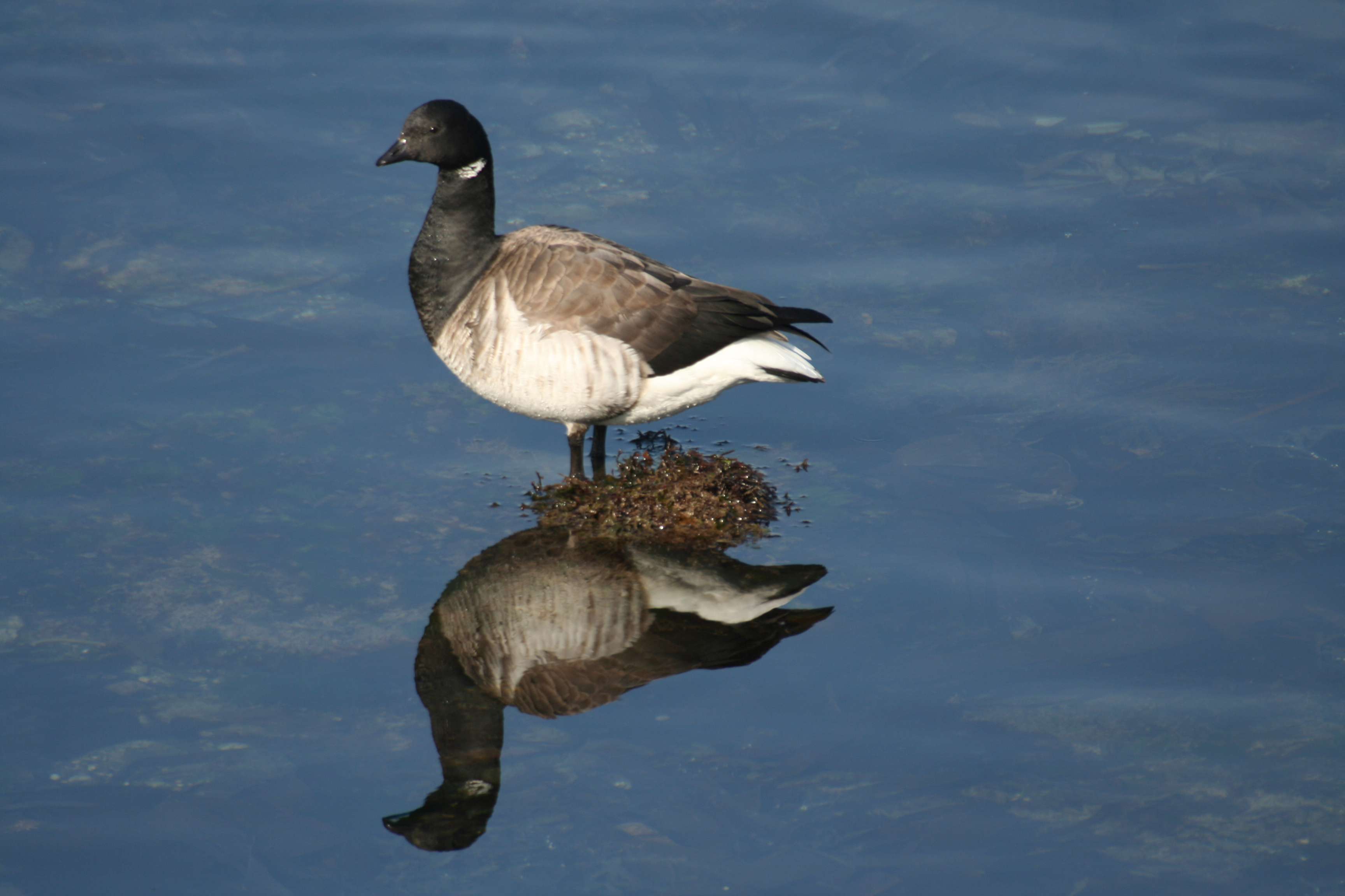 Brent Goose. Dun Laoghaire, Ireland.